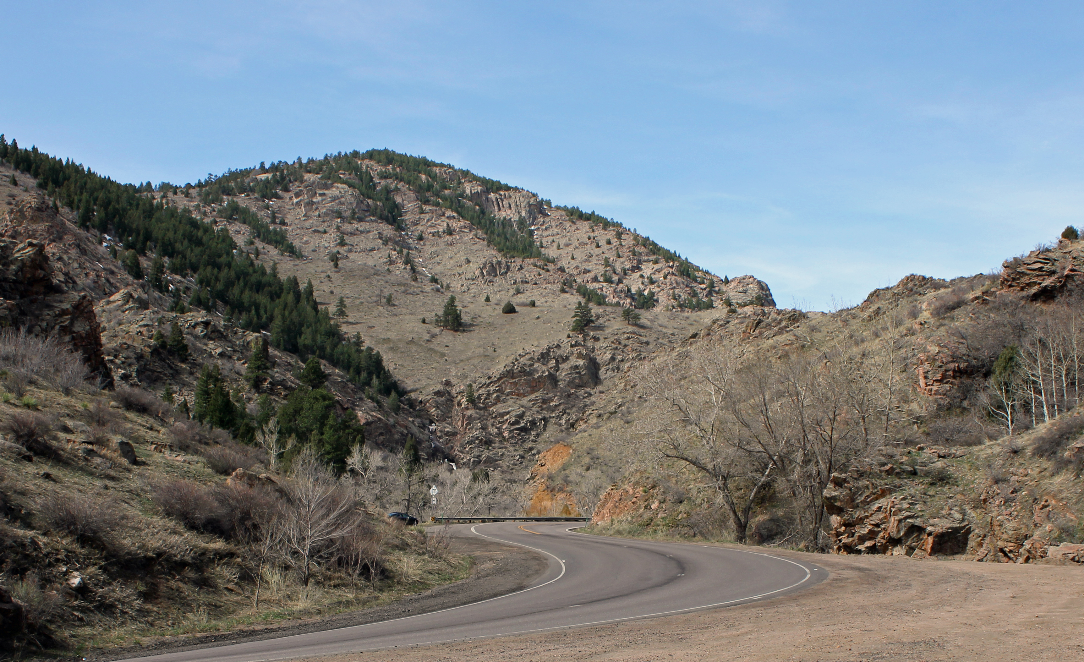 Bear Creek Canyon Scenic Mountain Drive, located on Colorado State Highway 74 between Morrison, Colorado and Idledale, Colorado. (Unnamed mountain point 7698 can be seen in the background.)